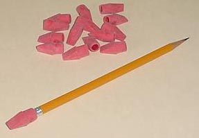 Pencil with pink Z0503 erasers - slip-on, wedge shape, NSN 7510-00-634-5352